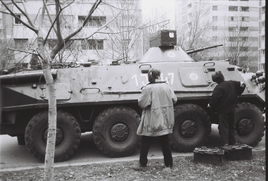 LAV-TB in Drumul Taberei 1989 December